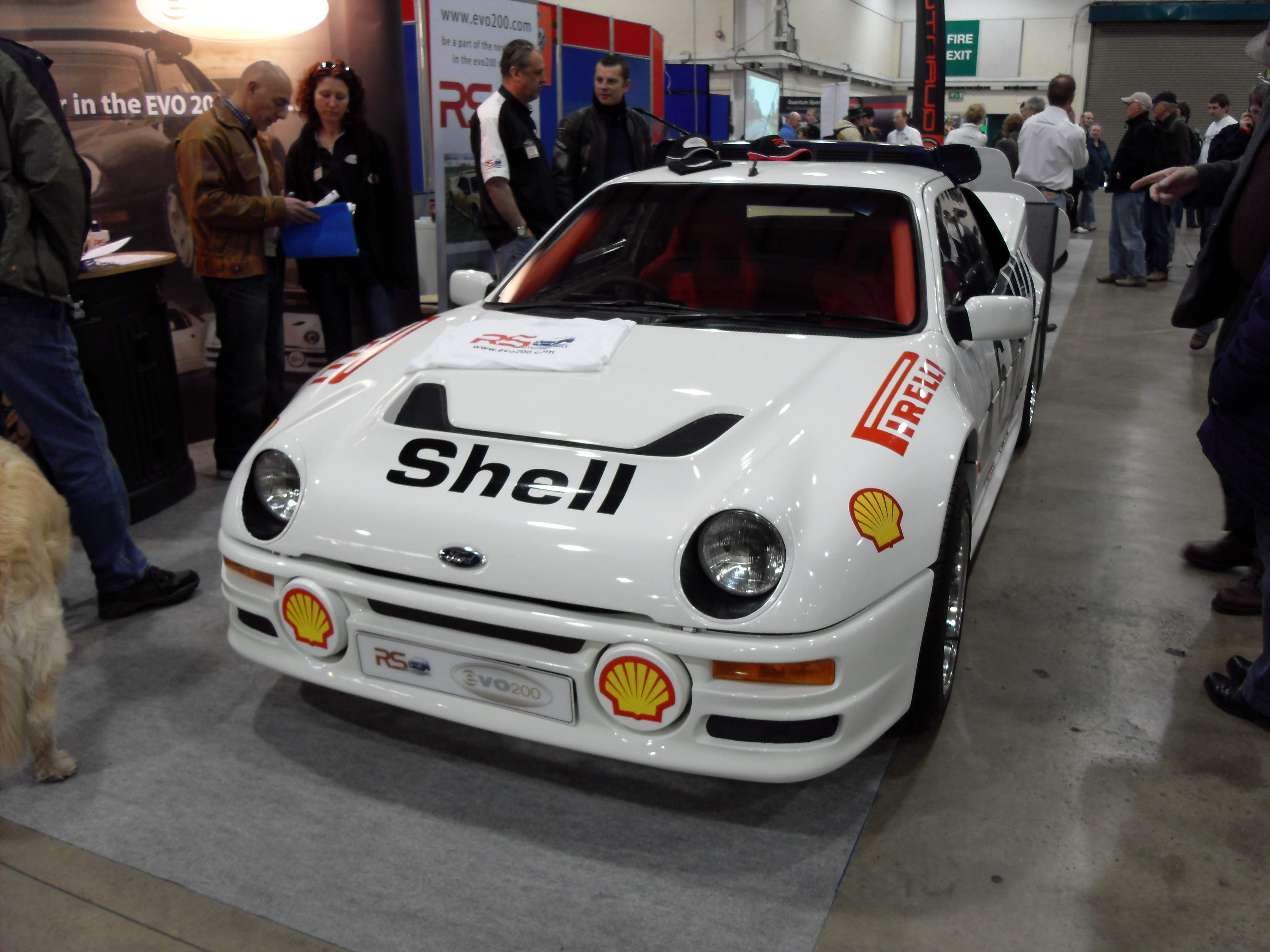 VLUU L310 W / Samsung L310 W taken at The National Kit Car Show Stoneleigh 2009